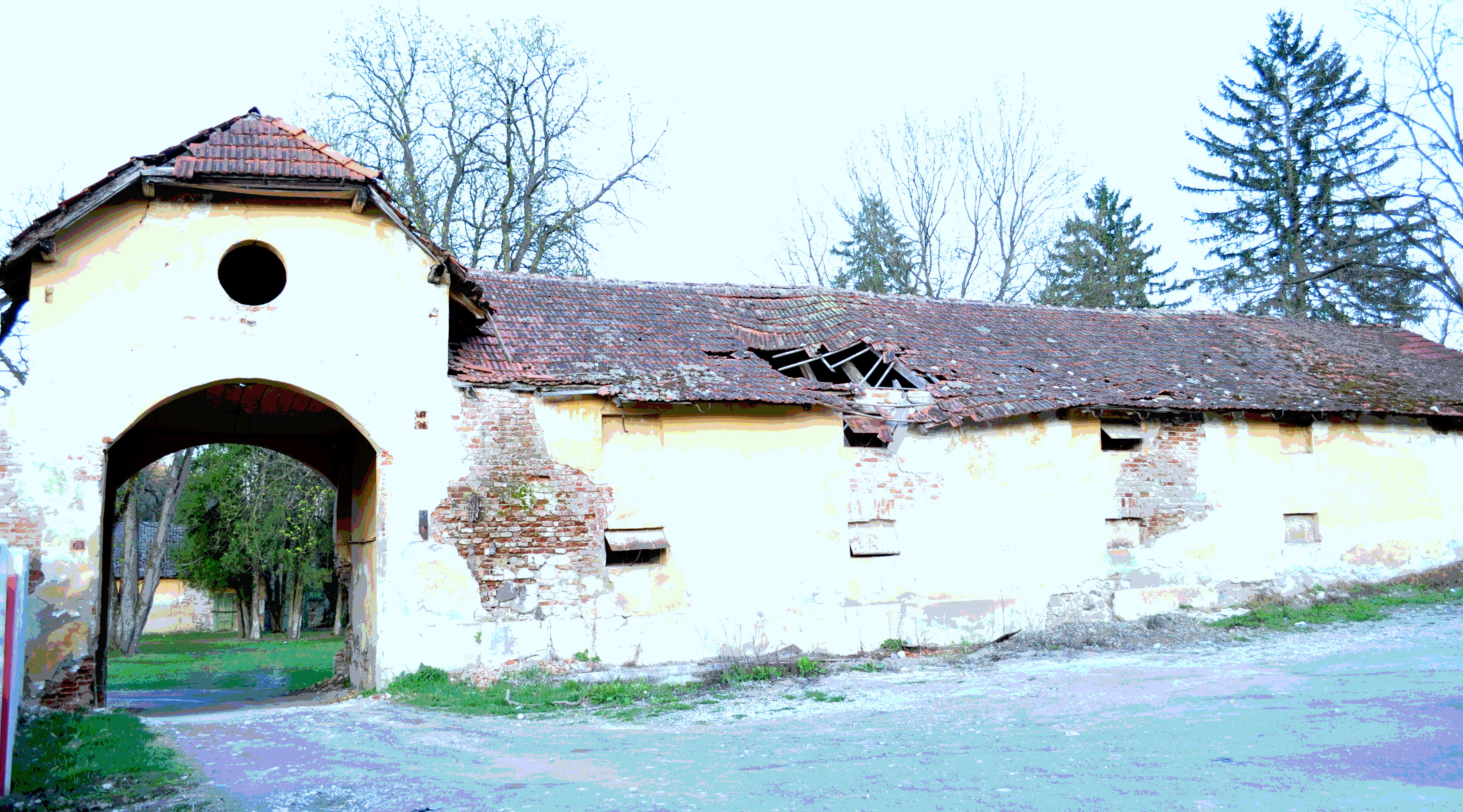 Klobosiski mansion snd domain in Gurasada, Hunedoara county